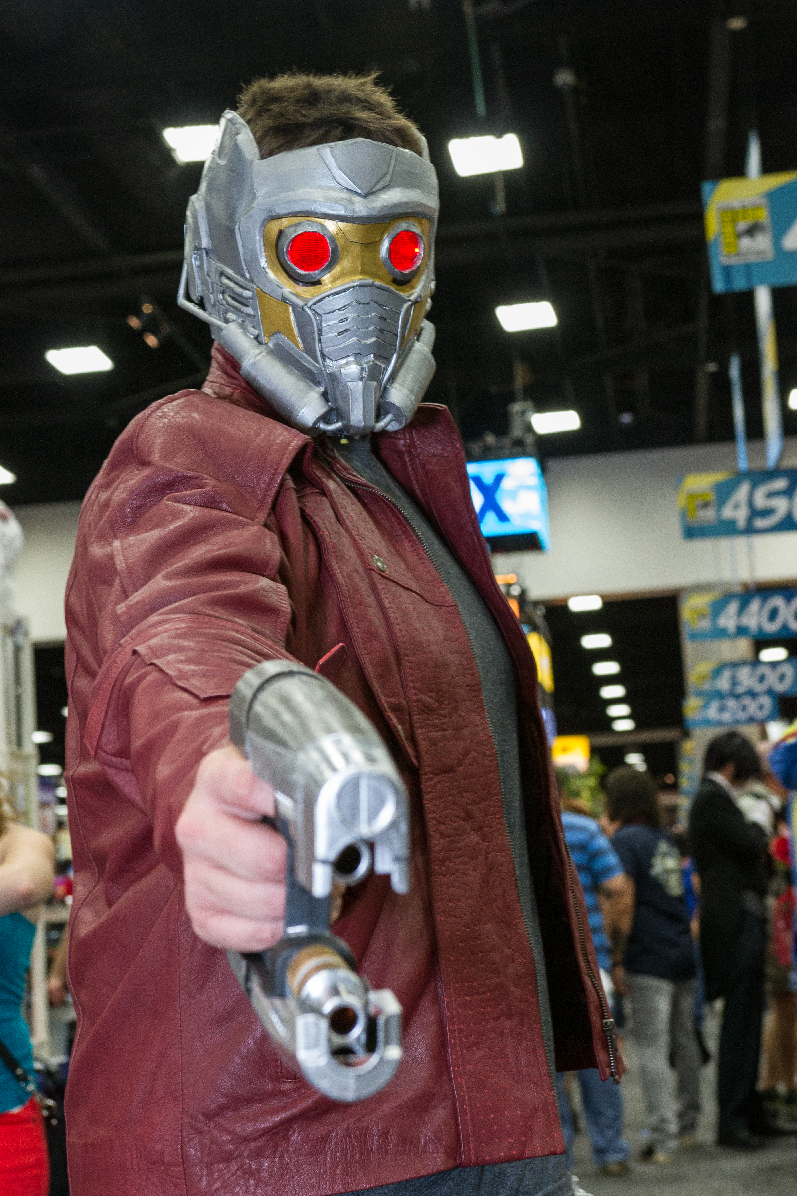 Cosplay at San Diego Comic-Con (SDCC 2014).